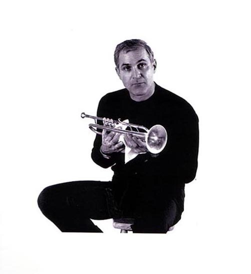 Pete Candoli in the 1950's